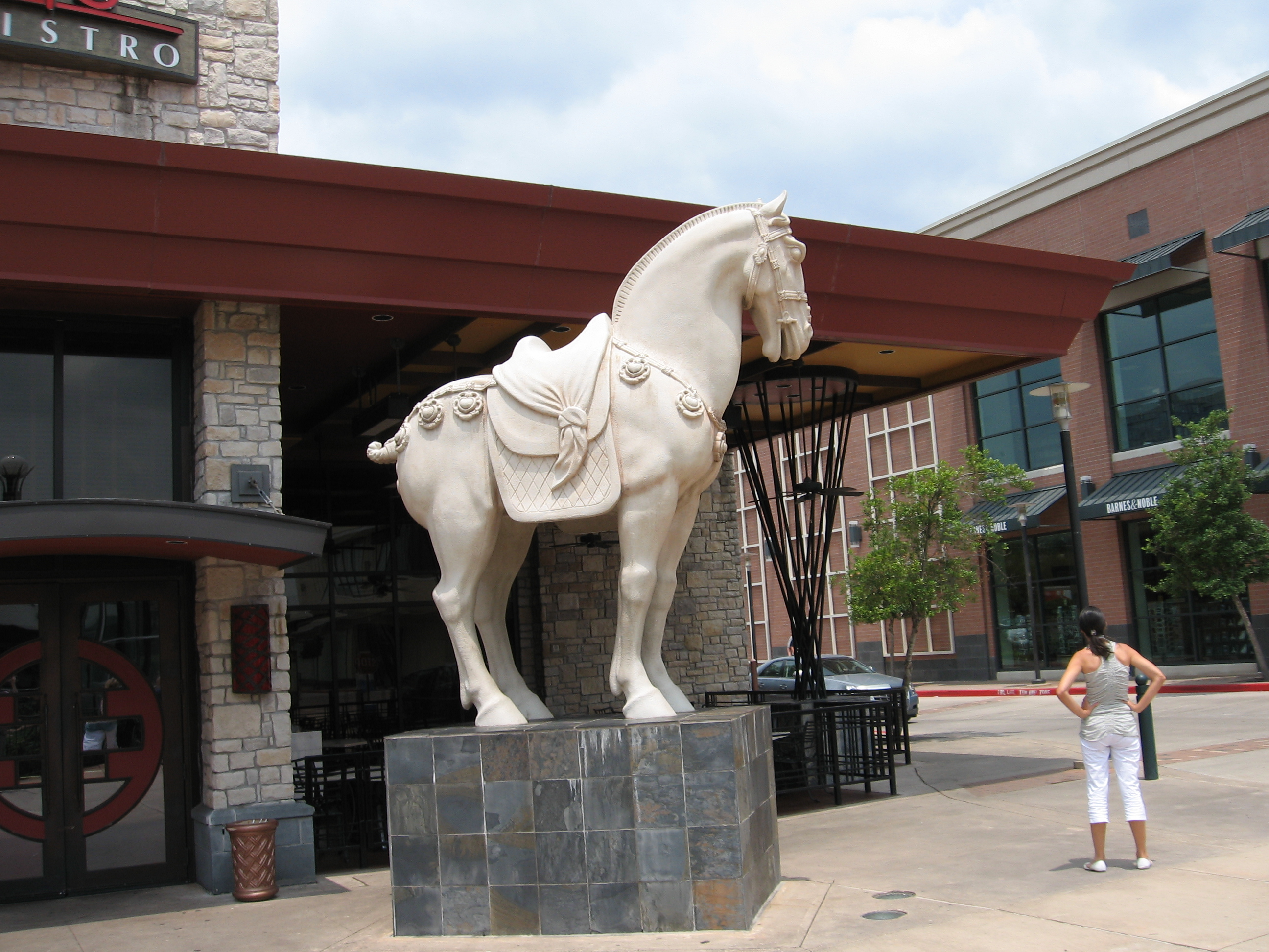 The Woodlands Texas, Horse statue outside mall